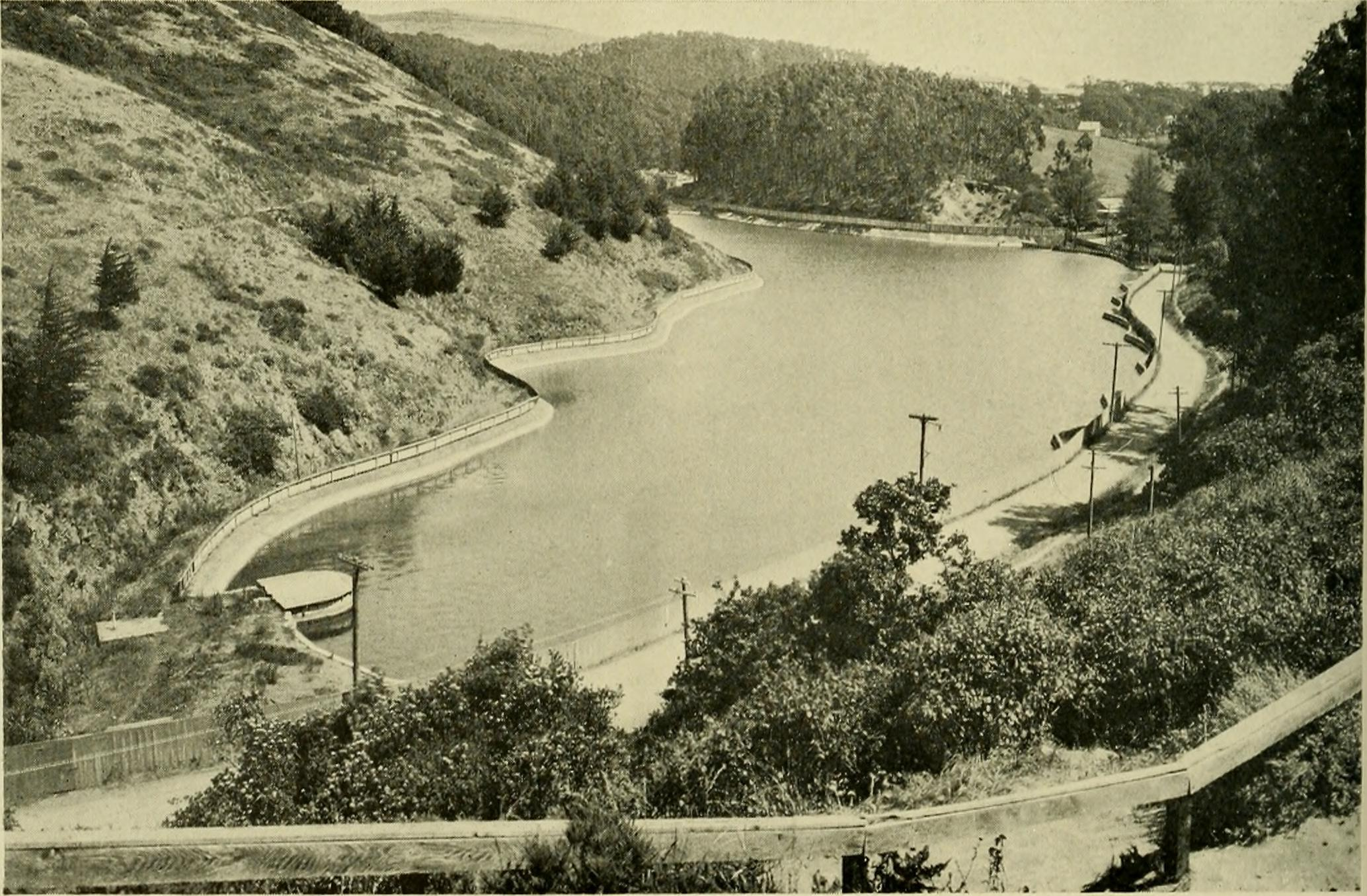 Title: San Francisco water Year: 1922 (1920s) Authors: Spring Valley Water Company (San Francisco, Calif.) Subjects: Water-supply Publisher: San Francisco, Calif. : Spring Valley Water Co. Text Appearing Before Image: Spring Valley has placed ten miles of Lake Merced trails at the disposal of the riding public. Signs explain thehistoric interest of the rancho, and direct equestrians to scenes of beauty and significance, notably to the site of thetragic Broderick-Terry duel in 1859. the last resort to the code in California. 18 SAN FRANCISCO WATER :: 1 ^^^ J&;.---, 1 ; ■j*;^/^ w$ ■ 11/ -*C^ There are six golf courses on the Lake Merced Rancho—the San Francisco, the California, the Lake Merced, thetwo Olympic Club courses, and the Harding Memorial Course maintained by the City. This view is from the porchof the Harding clubhouse, looking across one of the sporty municipal holes to the silver expanse of Lake Merced. Text Appearing After Image: The first built of Spring Valleys three major distributing reservoirs in San Francisco is Laguna Honda, at SeventhAvenue opposite Ortega Street. When Pilarcitos water was first brought to the city in 1862, it was delivered here,and this deep lake has been part of the city system ever since. At elevation 370 feet, it supplies high city areas. SAN FRANCISCO WATER 19